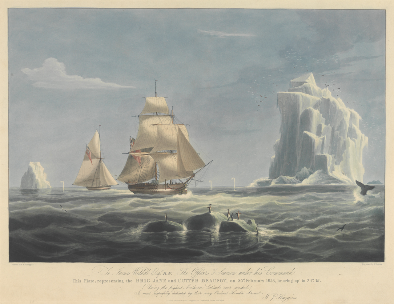 To James Weddell, Esqr R.N... the brig Jane and cutter Beaufoy on 20th February 1823, bearing up in 74o 15' (Being the highest Southern Latitude ever reached) Hand-coloured. To James Weddell, Esqr R.N... the brig Jane and cutter Beaufoy on 20th February 1823, bearing up in 74o 15' (Being the highest Southern Latitude ever reached)